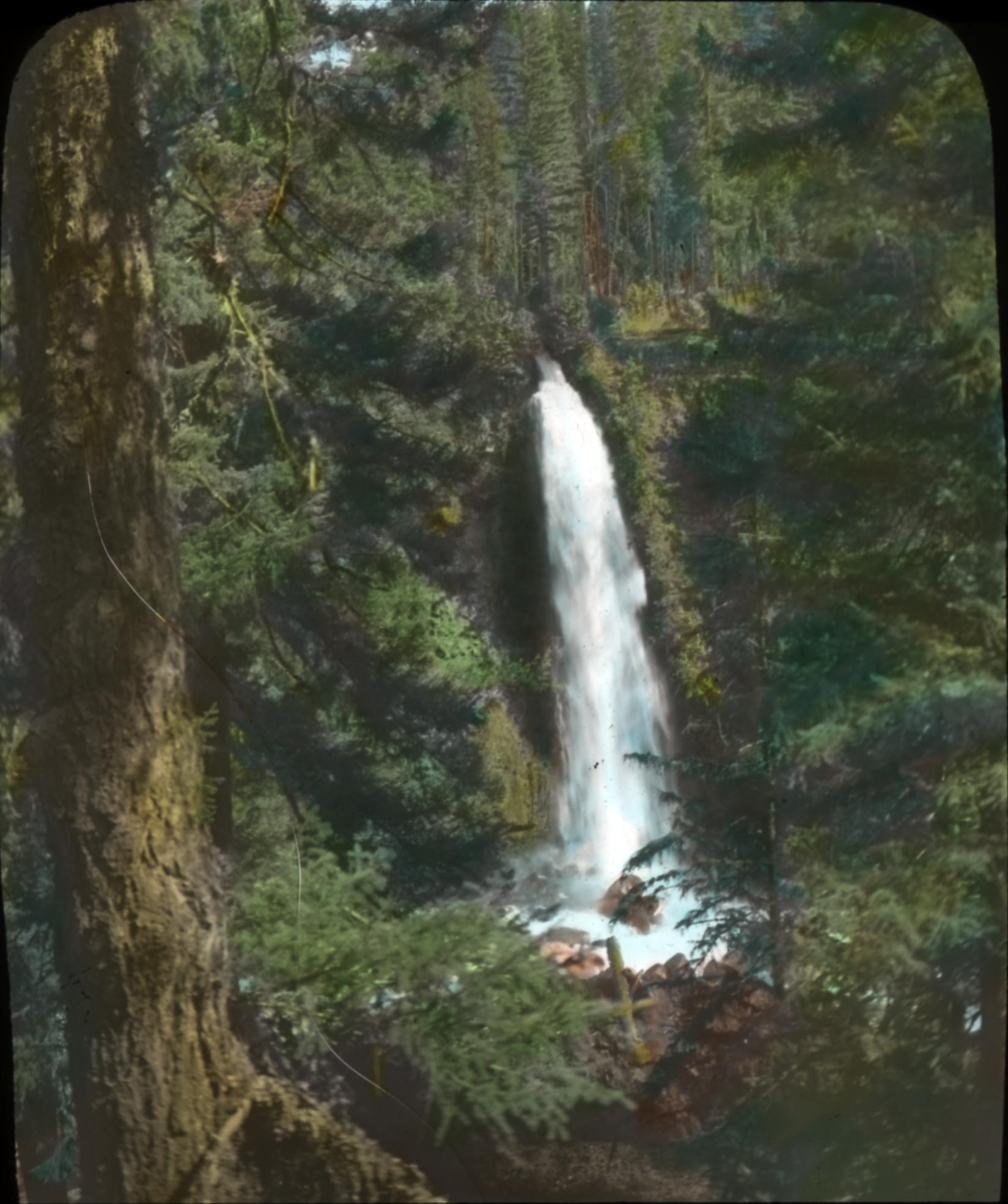 Image Description: "Another bit of natural charm on the trip. Mill Creek is a tributary of Rogue River." Original Collection: Visual Instruction Department Lantern Slides Item Number: P217:set 065 004 You can find this image by searching for the item number by clicking here. Want more? You can find more digital resources online. We're happy for you to share this digital image within the spirit of The Commons; however, certain restrictions on high quality reproductions of the original physical version may apply. To read more about what “no known restrictions” means, please visit the Special Collections & Archives website, or contact staff at the OSU Special Collections & Archives Research Center for details.